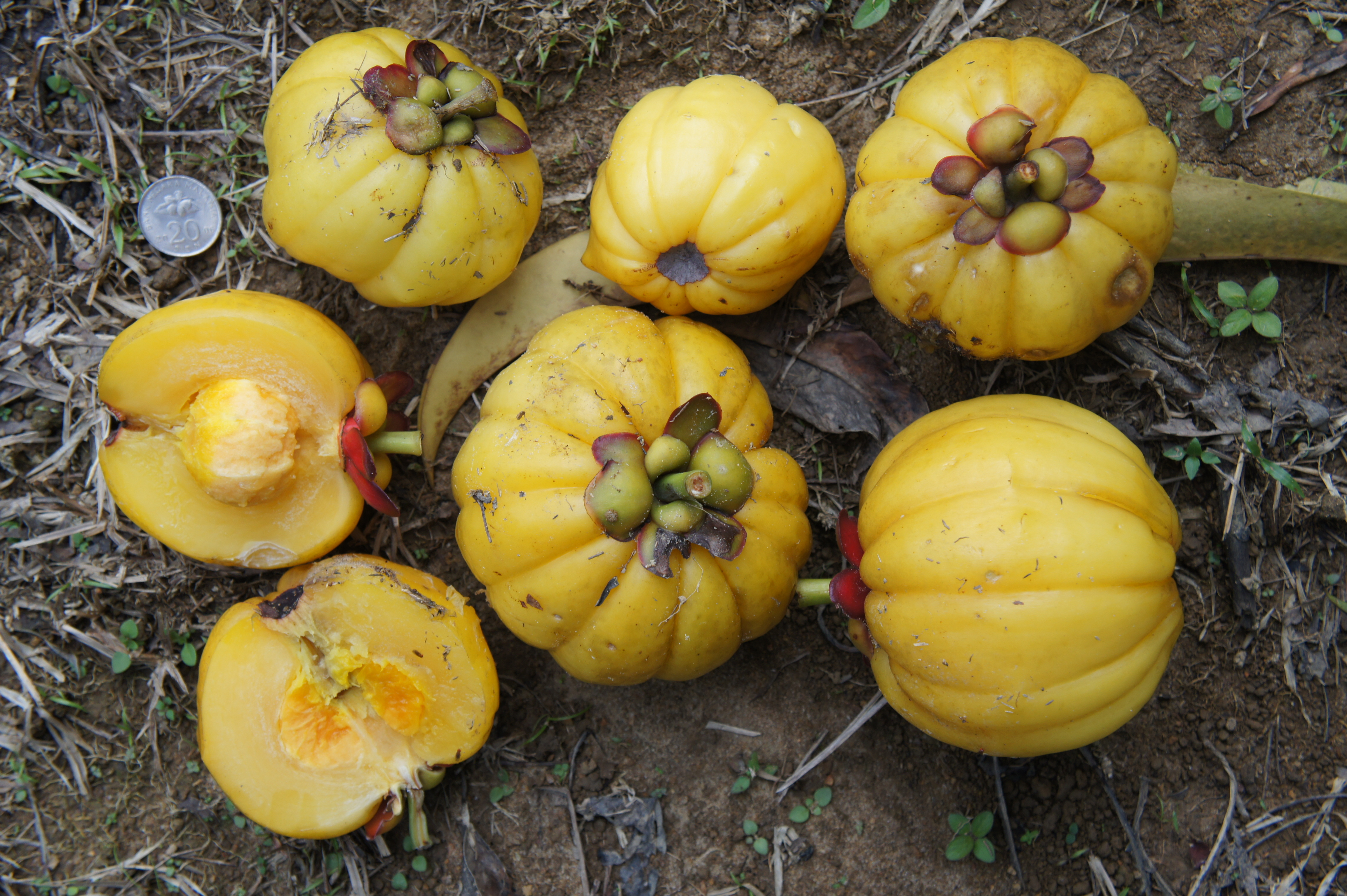 Fruits of Garcinia atroviridis which is called asam gelugor in Malaysia. Location: Serdang, Selangor, Malaysia, pictured coin is 24 mm across